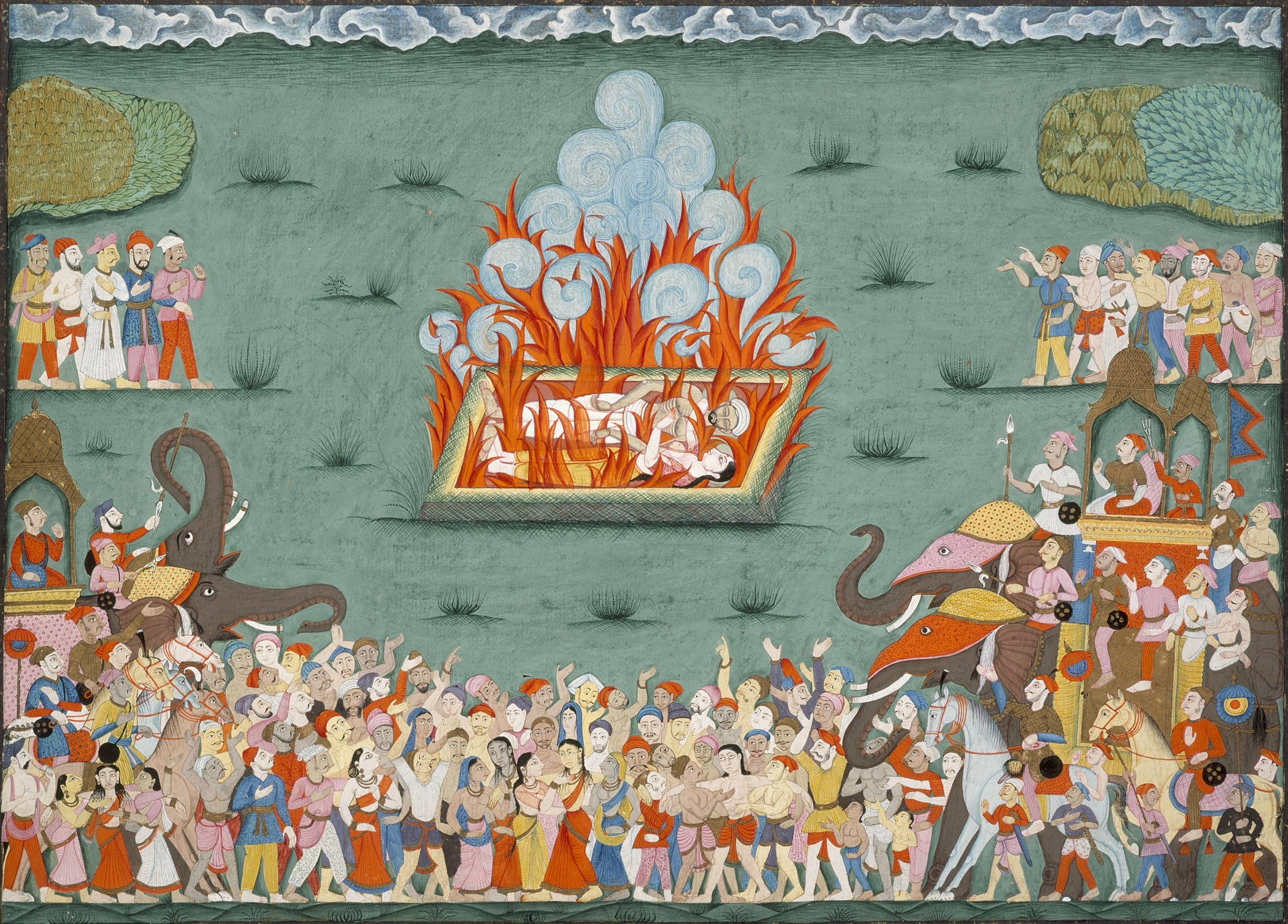 The Sati of Ramabai, Wife of Madhavrao Peshwa (reigned 1761-1772)